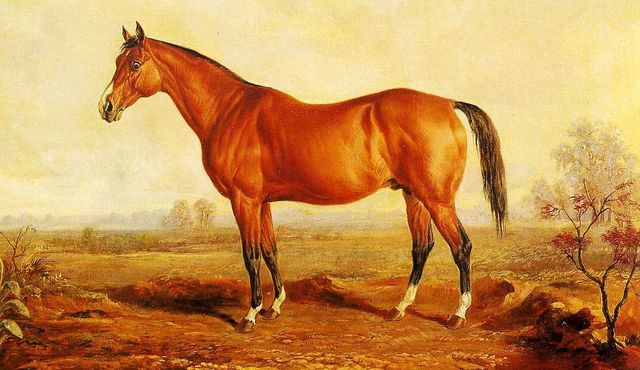 Lexington (1850–1875) won six of his seven race starts. He became the most successful sire during the second half of the nineteenth century when he was the leading sire in North America 16 times.